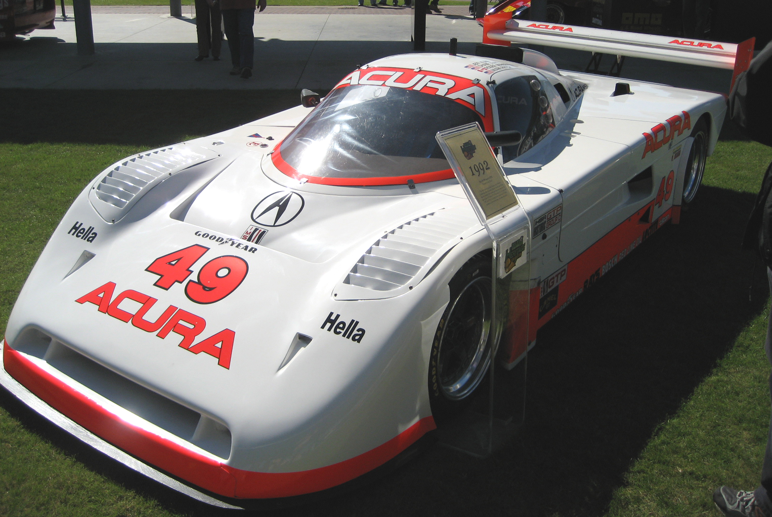 A Spice-Acura on display at the 2007 24 Hours of Daytona